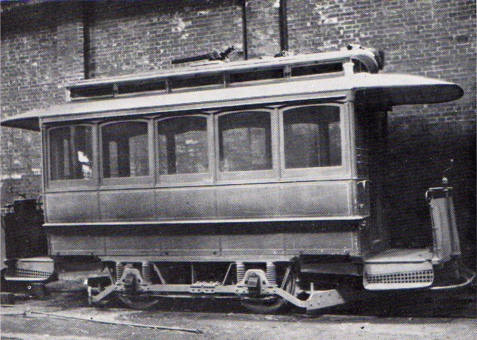 Sprague train of Tokyo-dento